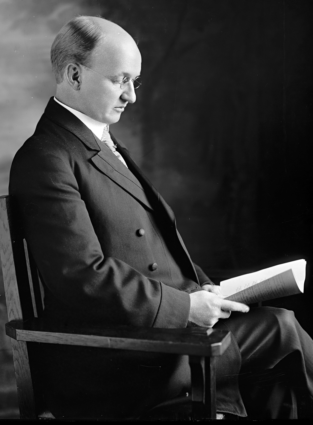 John M. Nelson, US Representative from Wisconsin